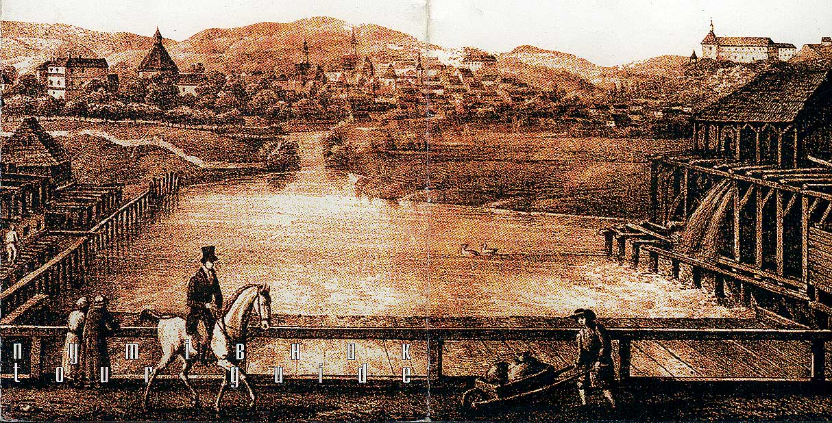 Berezhany. Panoram over Zolota Lypa river. Berezhany castle is on the back to the right (castle tower is seen).